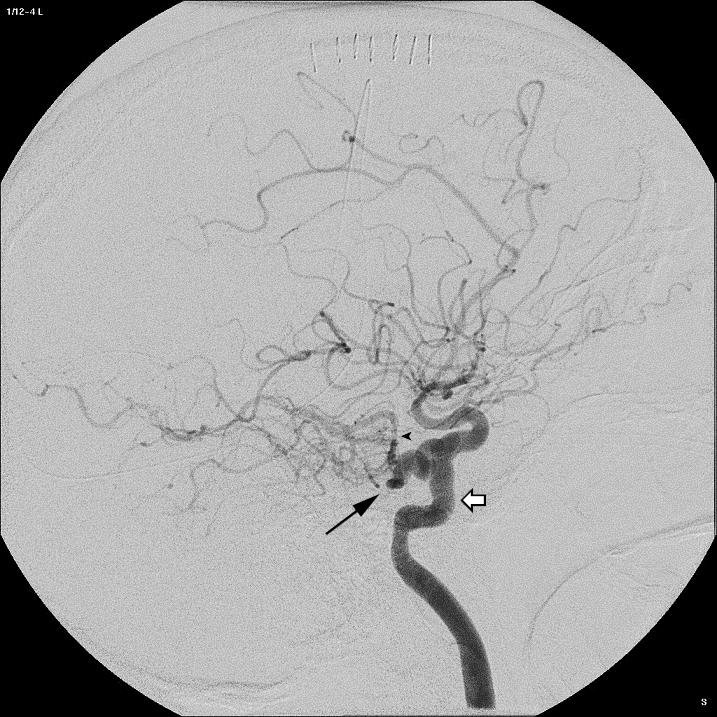 Digital subtraction angiogram of the internal carotid artery, lateral view, demonstrates a large tortuous vessel (arrow) passing from the internal carotid artery (open arrow) to the basilar artery (arrowhead), and supplying the posterior circulation. This anomaly is called persistent primitive trigeminal artery.